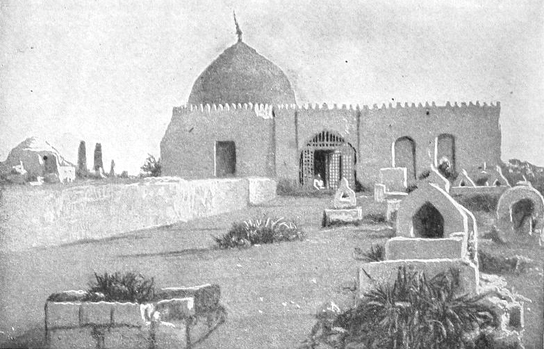 "The reputed Tome of Eve at Jiddah"